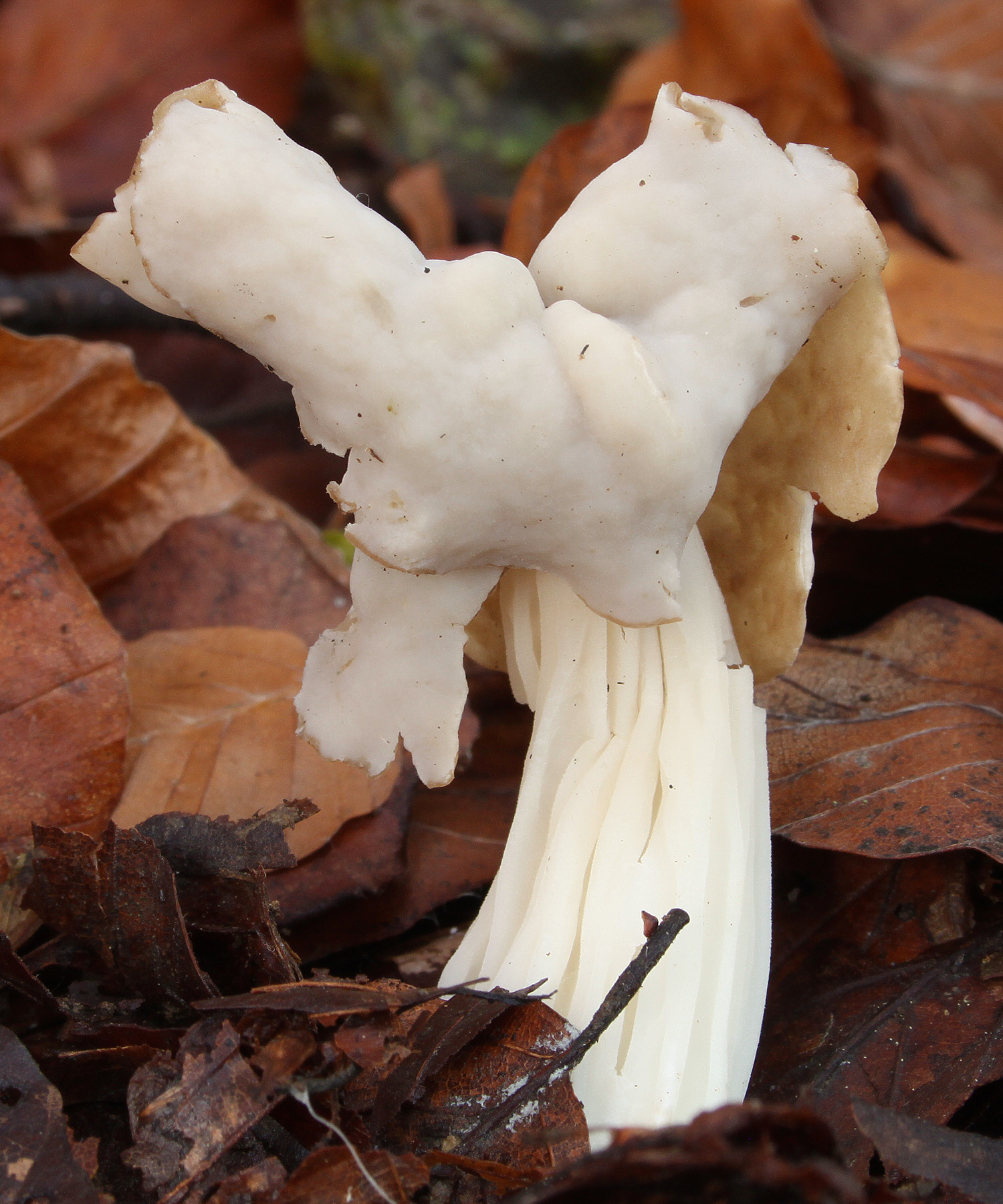 White Saddle, Elfin Saddle or Common Helvel Helvella crispa syn. H. pithyophila, Family: Helvellaceae, Location: Germany, Laichingen